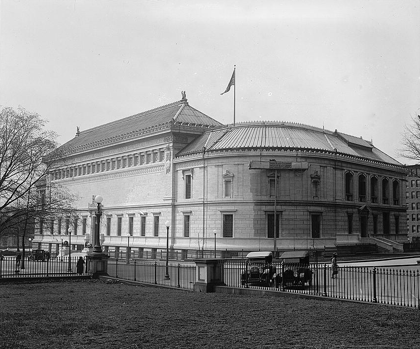 Corcoran Art Gallery, 3/28/23